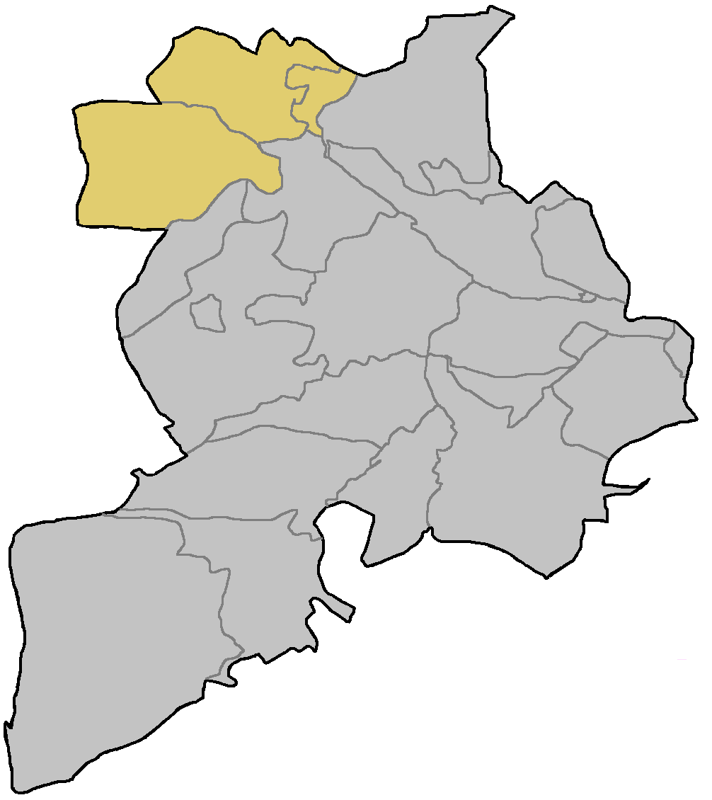 Locator map of Wurgwitz in Freital